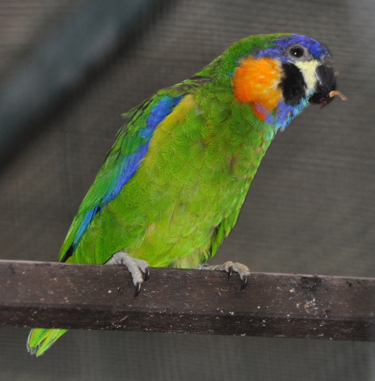 A female Orange-breasted Fig-parrot in the Walsrode Bird Park, Germany.